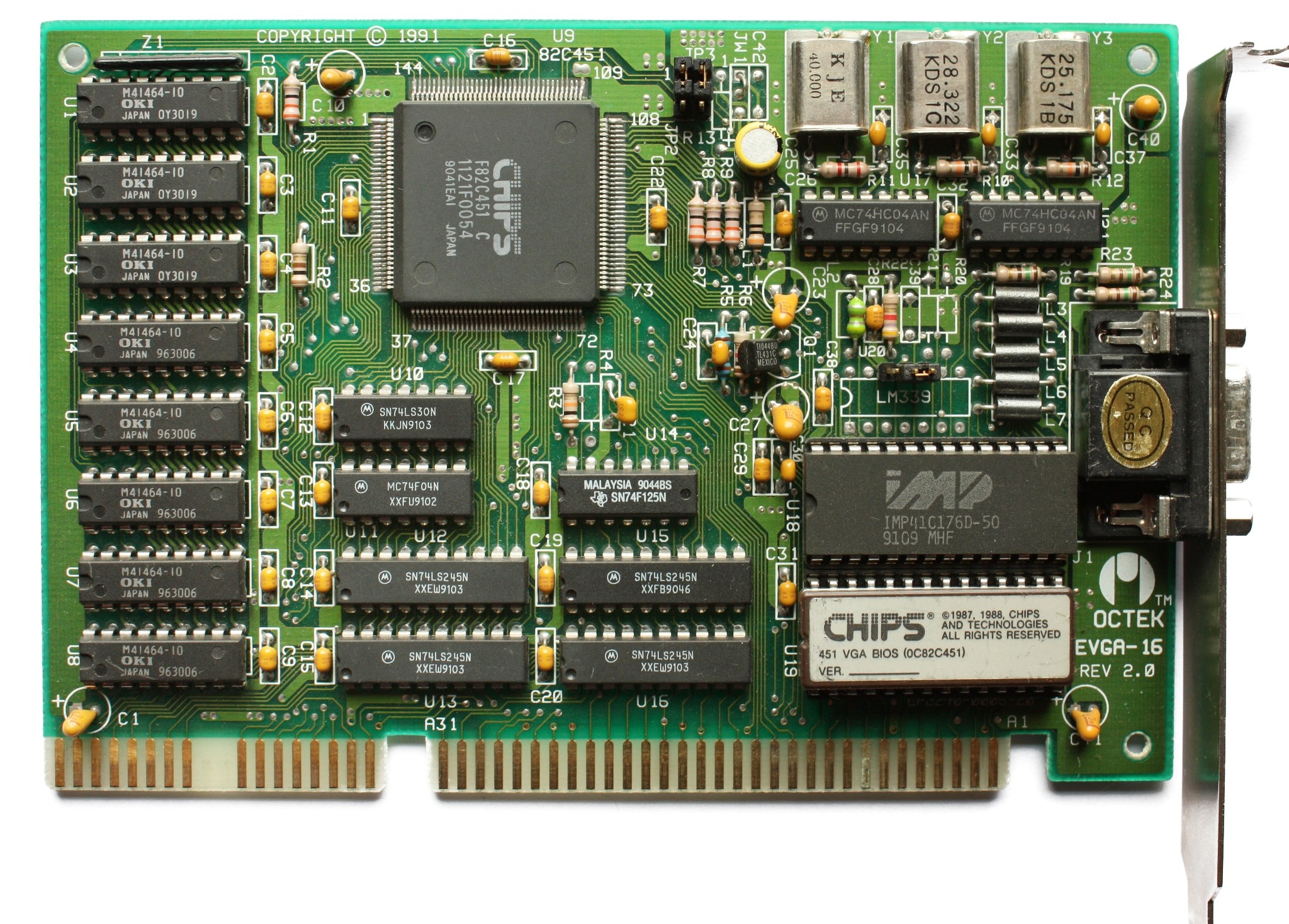 Chips & Technologies F82C451C @ OCTEK EVGA-16